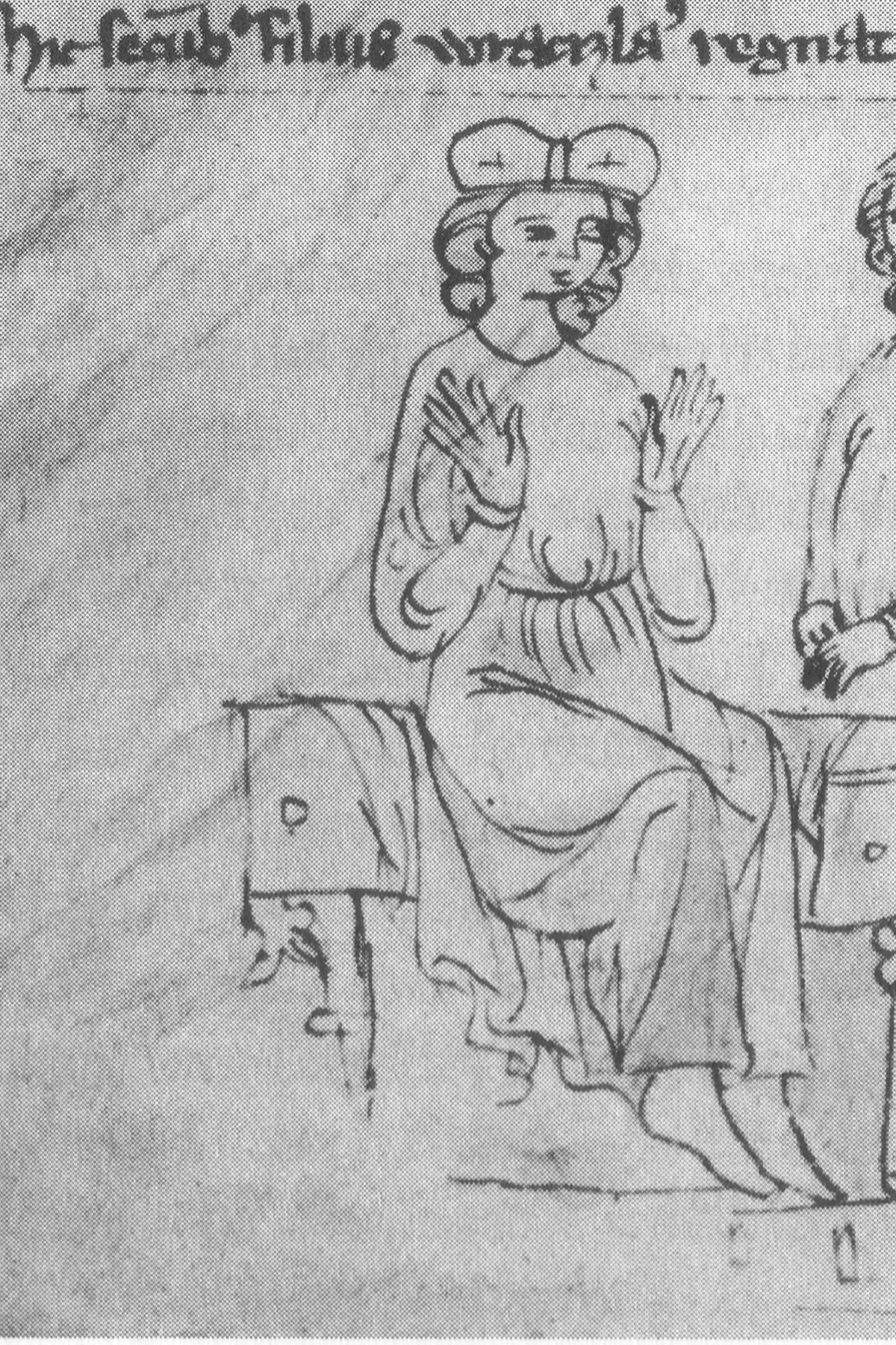 Vratislaus I of Bohemia